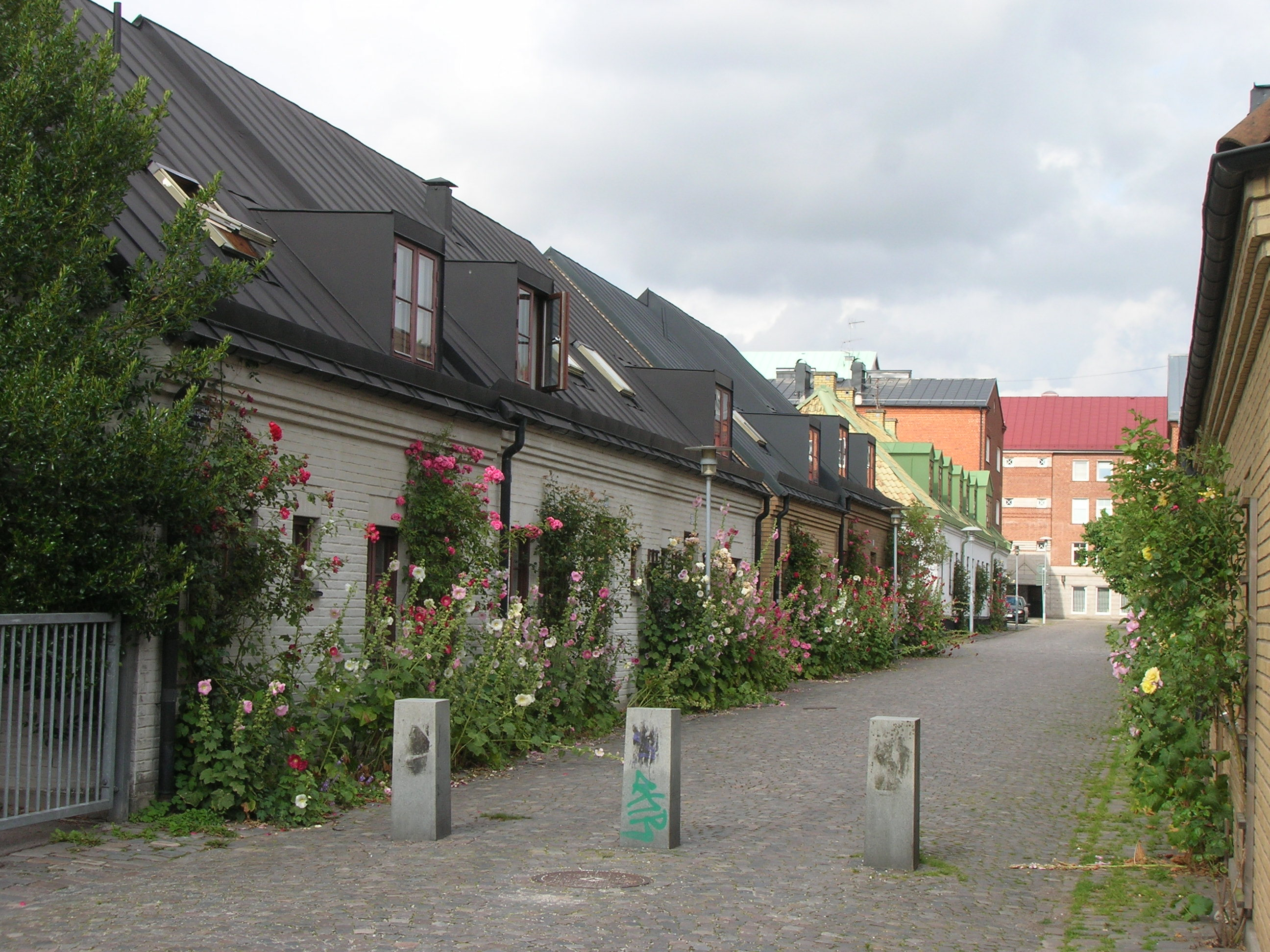 Korsgatan in Nöden in Lund.